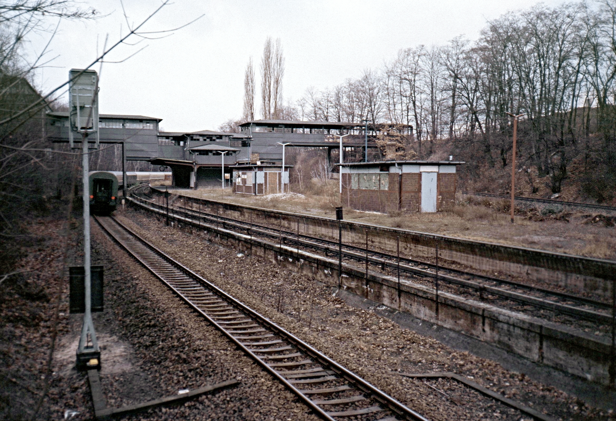 Unused train station "Eichkamp" in Berlin